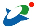 Yokoshibahikari Chiba chapter